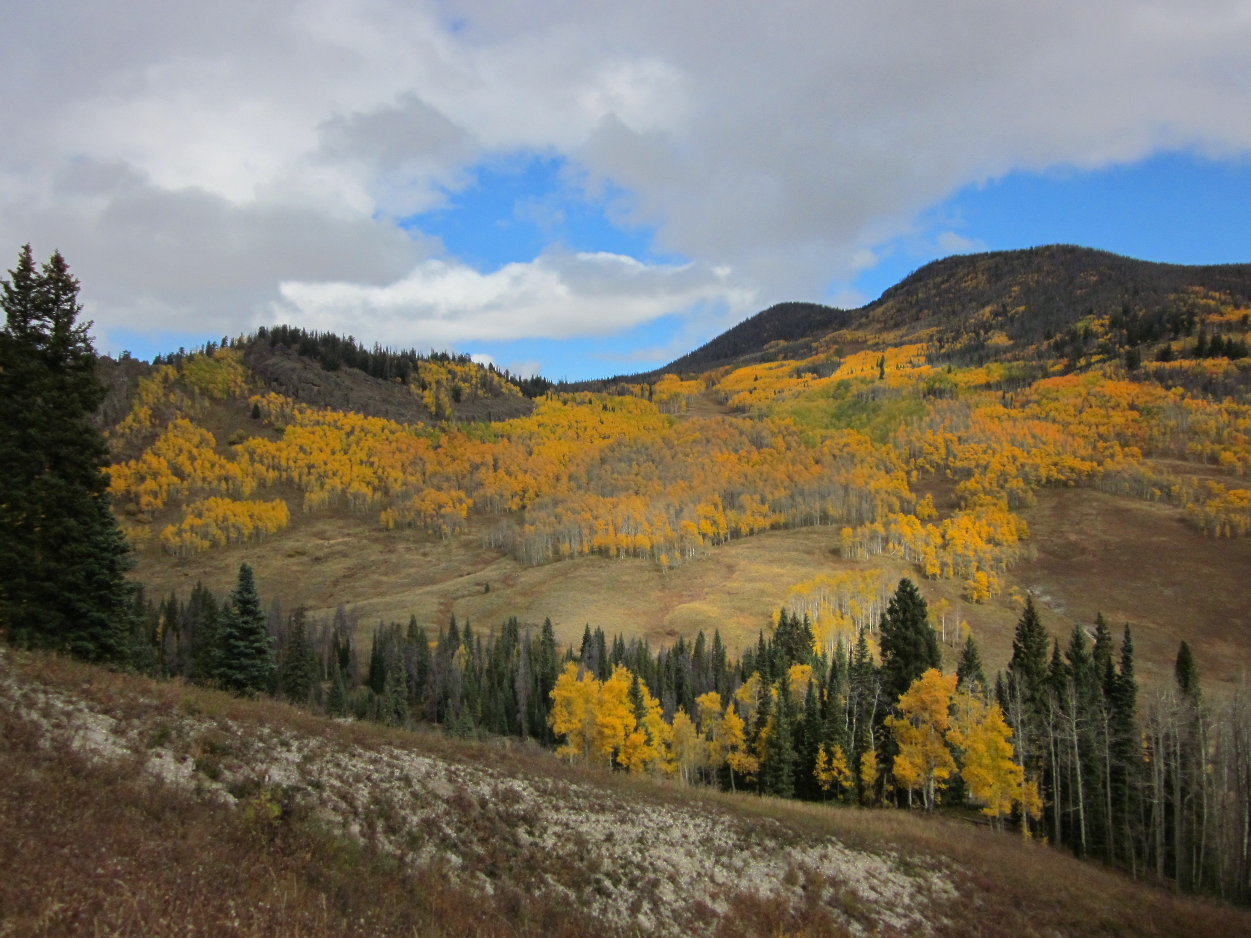 Yellow and orange aspens color the hillside near Crooked Creek Road on the Sulphur Ranger District, Arapaho National Forest. The Sulphur Ranger District is more than 442,000 acres in Grand County, CO. Being surrounded by mountain peaks, meadows and lakes, you are in for a truly majestic experience in this forest.. USDA Photo.